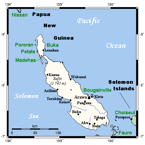 Bougainville and Buka, or the North Solomons, Melanesia.